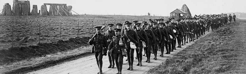 Canadians Marching Past Stonehenge Men of the 10th (Alberta) Battalion pass Stonehenge. From October 1914 to February 1915, over 30,000 Canadians trained on Salisbury Plain before departing for the Western Front.